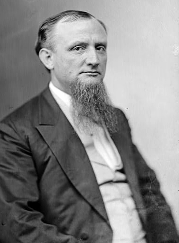 Van H. Manning, US Representative from Mississippi